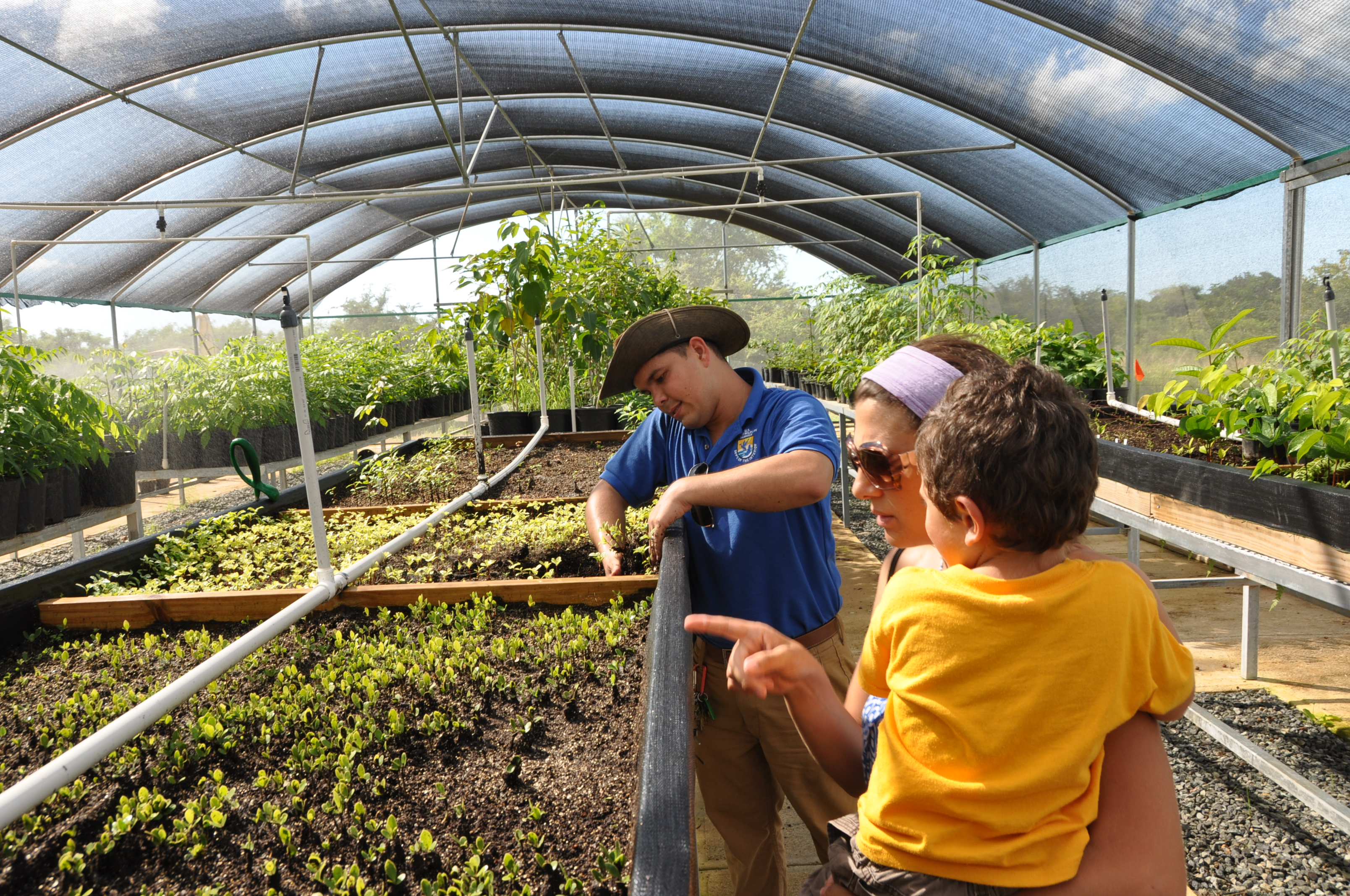 By USFWS December 3, 2011 Grand Opening Caribbean NWR Complex and Caribbean Ecological Service Field Office in Boquerón Puerto Rico.